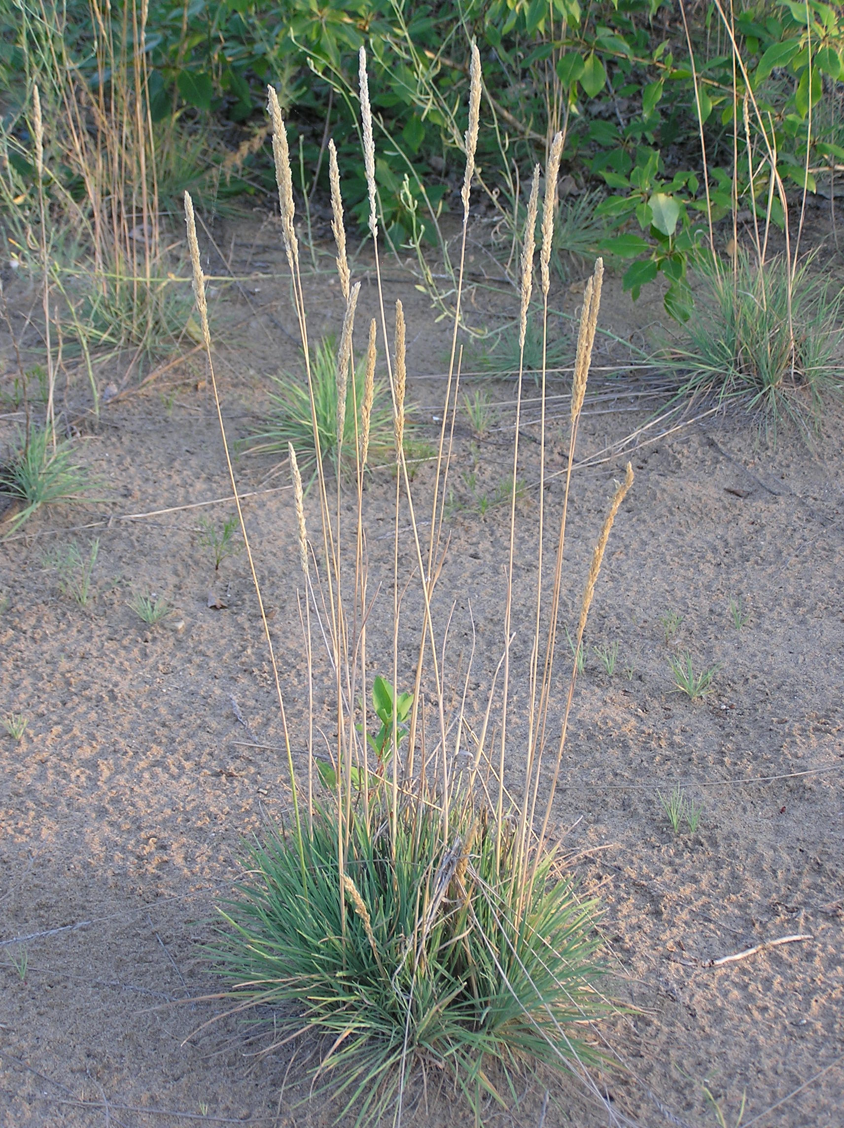 Koeleria glauca (Spreng.) DC. (Blue hair grass), habitus. Habitat: sand dunes. Vicinity of Saratov city, Russia.